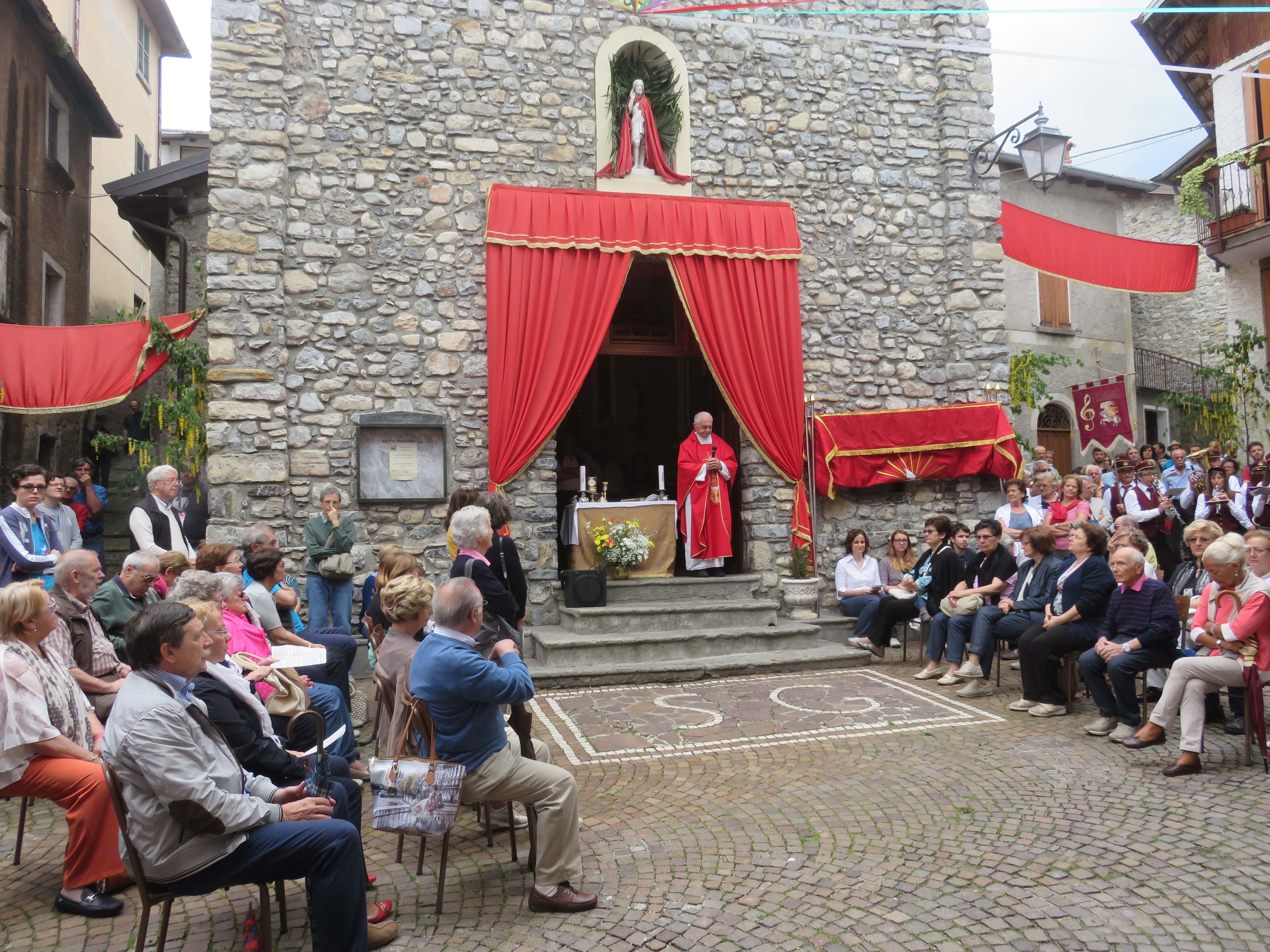 Wikimania is the annual conference celebrating Wikipedia and its sister free knowledge projects with conferences, discussions, meetups, training and a hackathon. Hundreds of volunteer editors come together to learn about and discuss projects, approaches and issues. This photo is taken by Jnanaranjan Sahu during the visit to Wikimania 2016 to Esino Lario, Italy ଓଡ଼ିଆ: ଉଇକିମାନିଆ ହେଉଛି ଉଇକିପେଡ଼ିଆ ଏବଂ ଏହାର ଅନ୍ୟ ପ୍ରକଳ୍ପ ଗୁଡିକରେ କାମ କରୁଥିବା ସ୍ୱେଚ୍ଛାସେବୀ ମାନଙ୍କର ଏକ ବାର୍ଷିକ ମେଳଣ । ଏହି ଫଟୋ ଜ୍ଞାନରଞ୍ଜନ ସାହୁଙ୍କ ଦ୍ୱାରା ୨୦୧୬ ମସିହା ଉଇକିମାନିଆରେ ଉଠାଜାଇଥିଲା ।